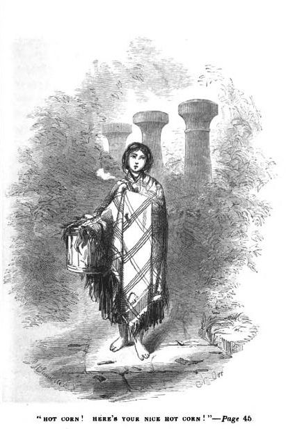 Illustration from "Hot Corn: Life Scenes in New York Illustrated" (1854), by John McLenan (1827-65), and engraved by Nathaniel Orr (1822-1908)